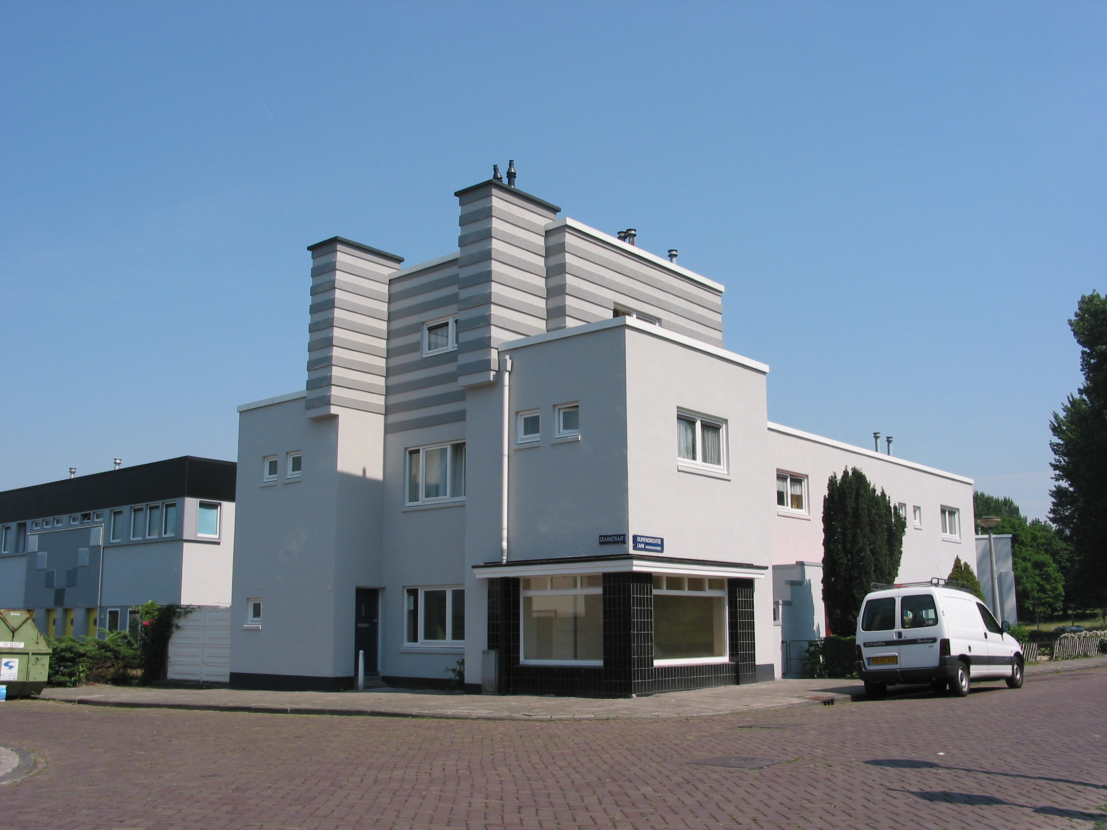 J.H. Mulder (architect). Duivendrechtselaan 129 to 135. May 1923-June 1925 (construction), 1987-1989 (renovation).